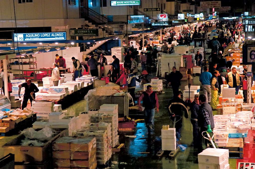 Mercamadrid This photograph can be used for publications, including this copyright statement: “©PromoMadrid, author Max Alexander”. Esta fotografía puede usarse en publicaciones, incluyendo la declaración “©PromoMadrid, autor Max Alexander”.